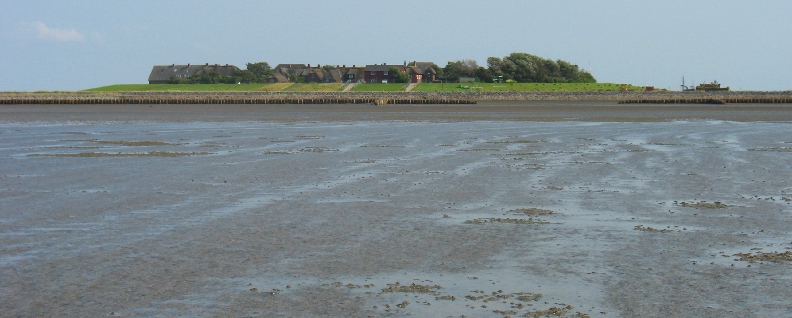 Oland Hallig (Schleswig-Holstein, Germany) from the Wadden Sea at low tide.